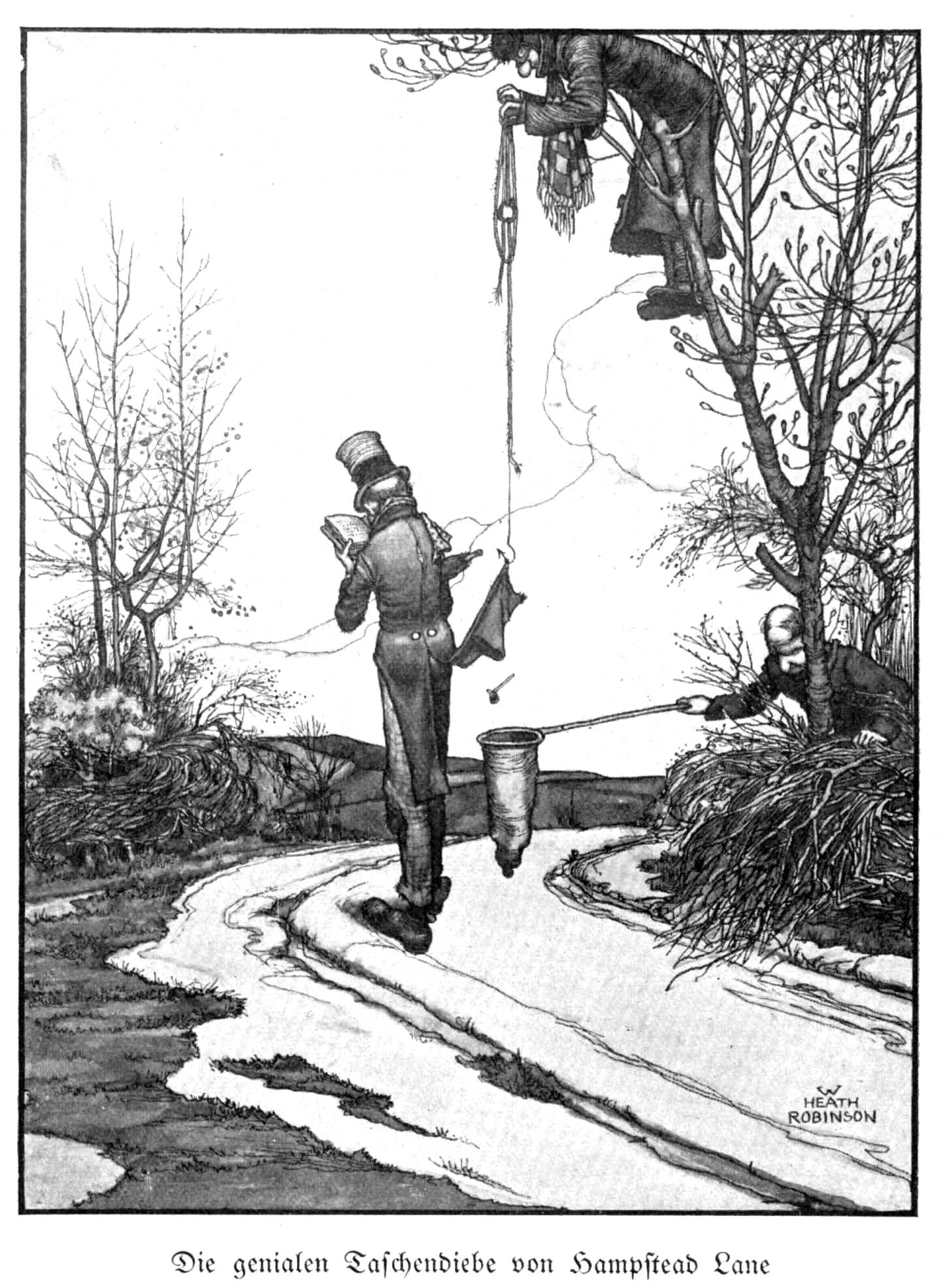 'The Ingenious Pick-pockets of Hampstead Lane'